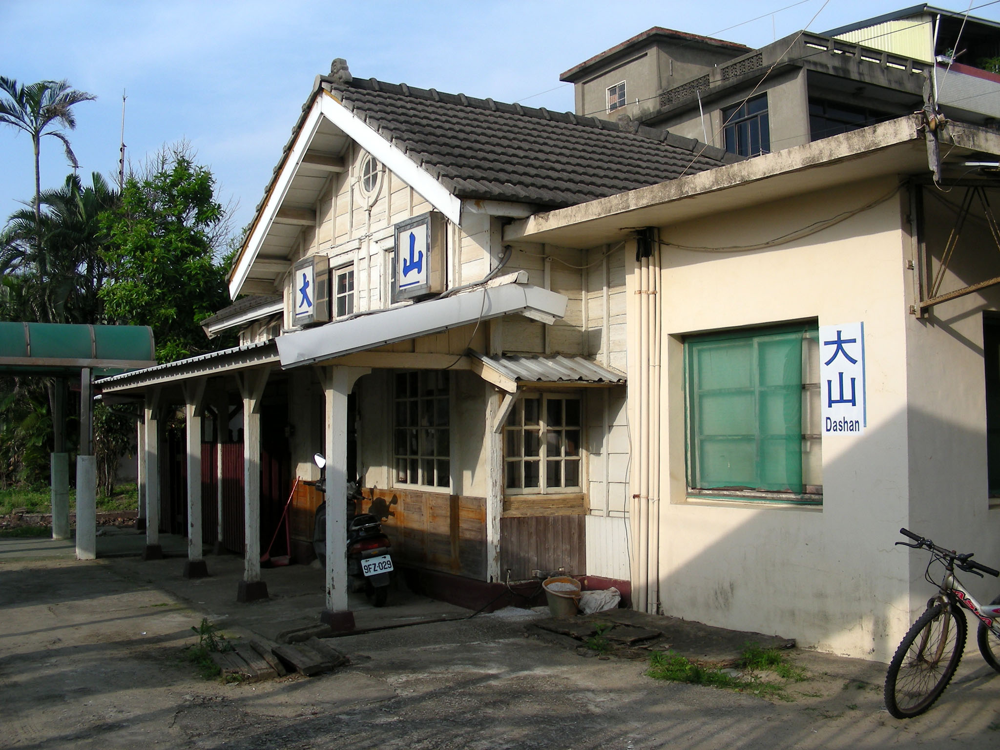 Taiwan "Da Shan" Railway Station main building